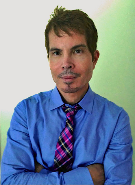 Author and attorney, Gerald Posner, in Miami, March 2013